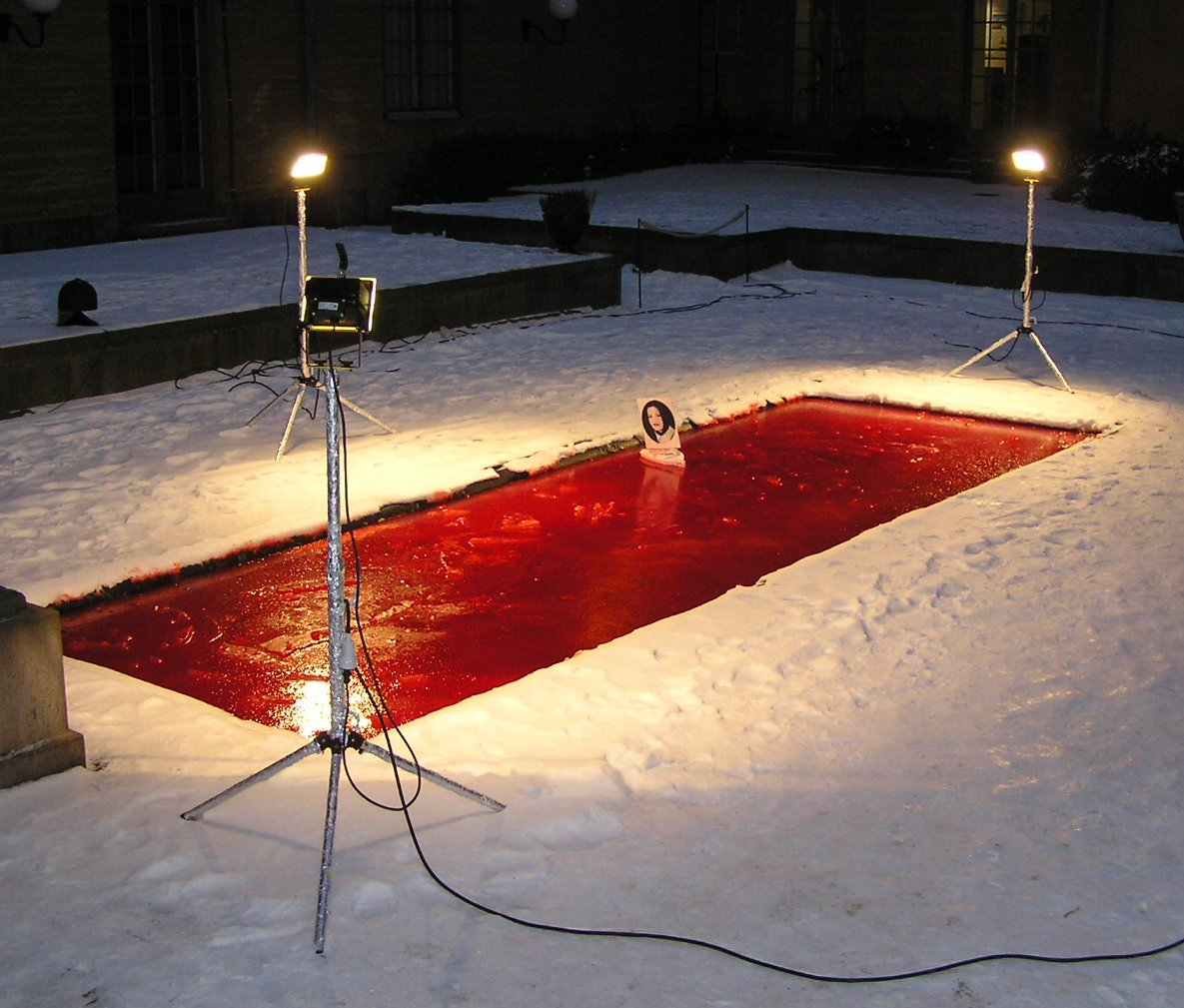 Picture of the art installation Snow White and The Madness of Truth. (Original Swedish title Snövit och sanningens vansinne.)